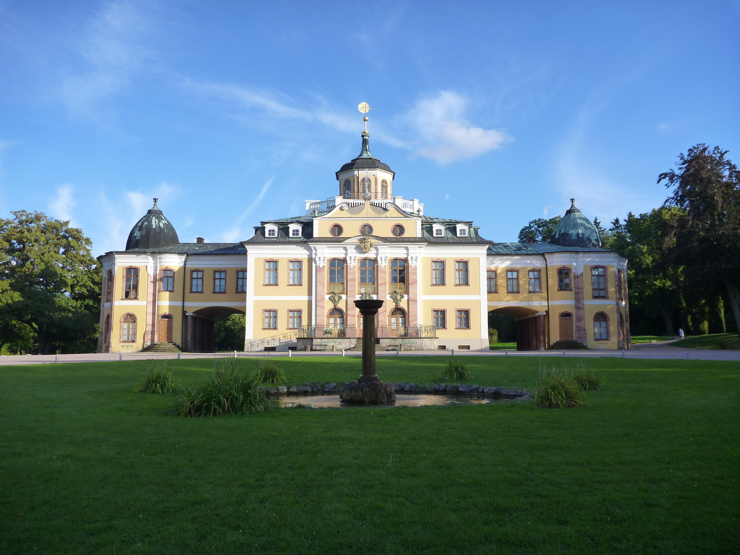 Chateau Belvedere in Weimar / Thuringia / Germany